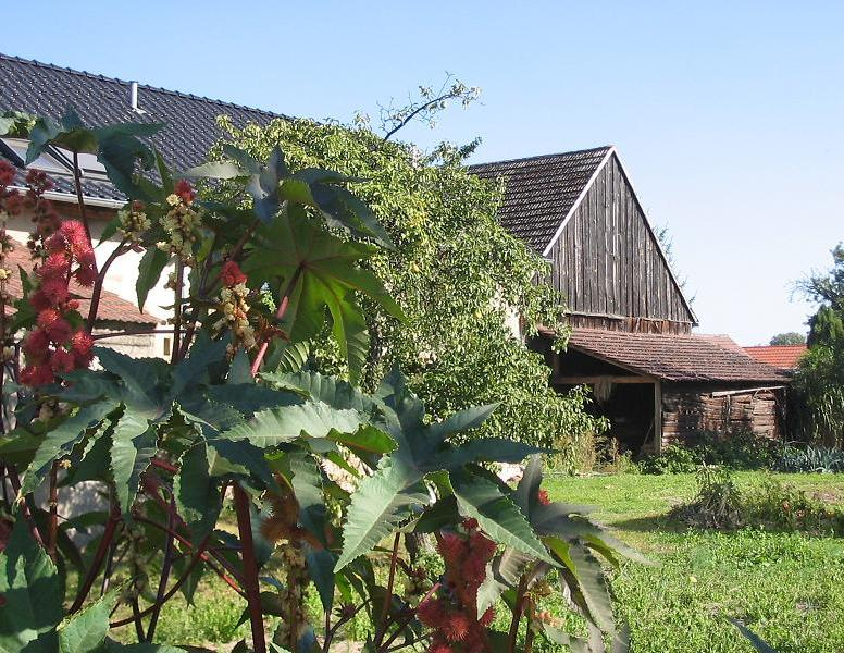 Barn and garden Dorfstraße (german for villagestreet ) No. 42 in Gömnigk. The village Gömnigk is a part of the town Brück in the district Potsdam Mittelmark, state Brandenburg, Germany, at the border to the natural preserve Naturpark Hoher Fläming.